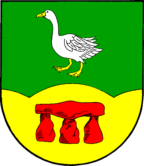 Coat of arms of the municipality Goosefeld in Schleswig-Holstein, Germany.